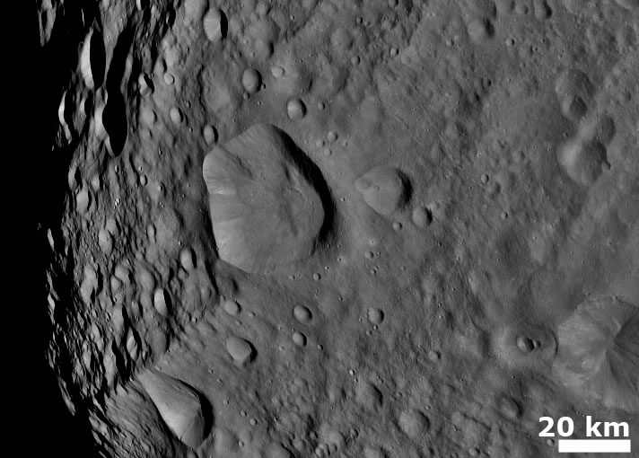 An image of cratered terrain with hills and ridges on Vesta taken by Dawn on August 6, 2011. It has a resolution of about 260 meters per pixel.